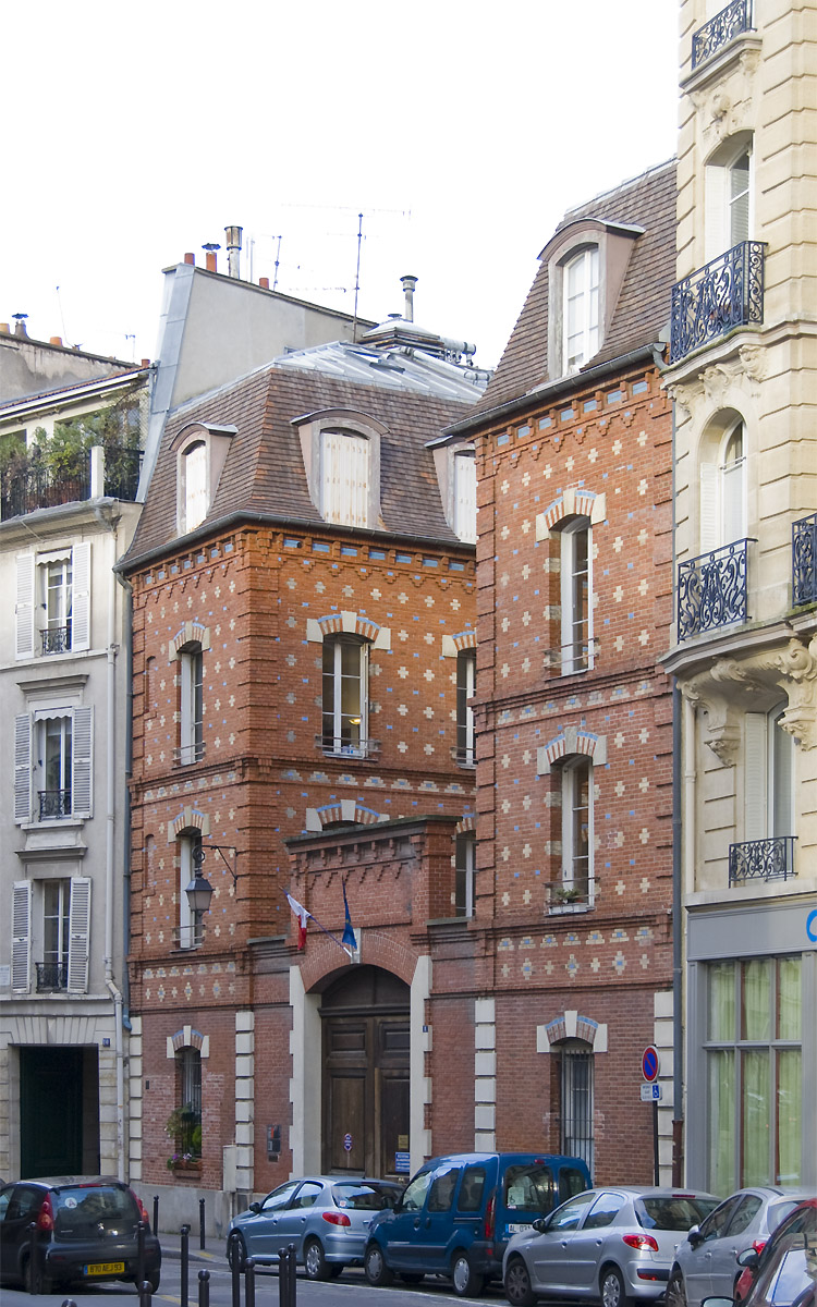 Antenne parisienne de l'École Nationale de la Magistrature, rue Chanoinesse, Paris, 4°, vue depuis la rue du Cloître Notre-Dame